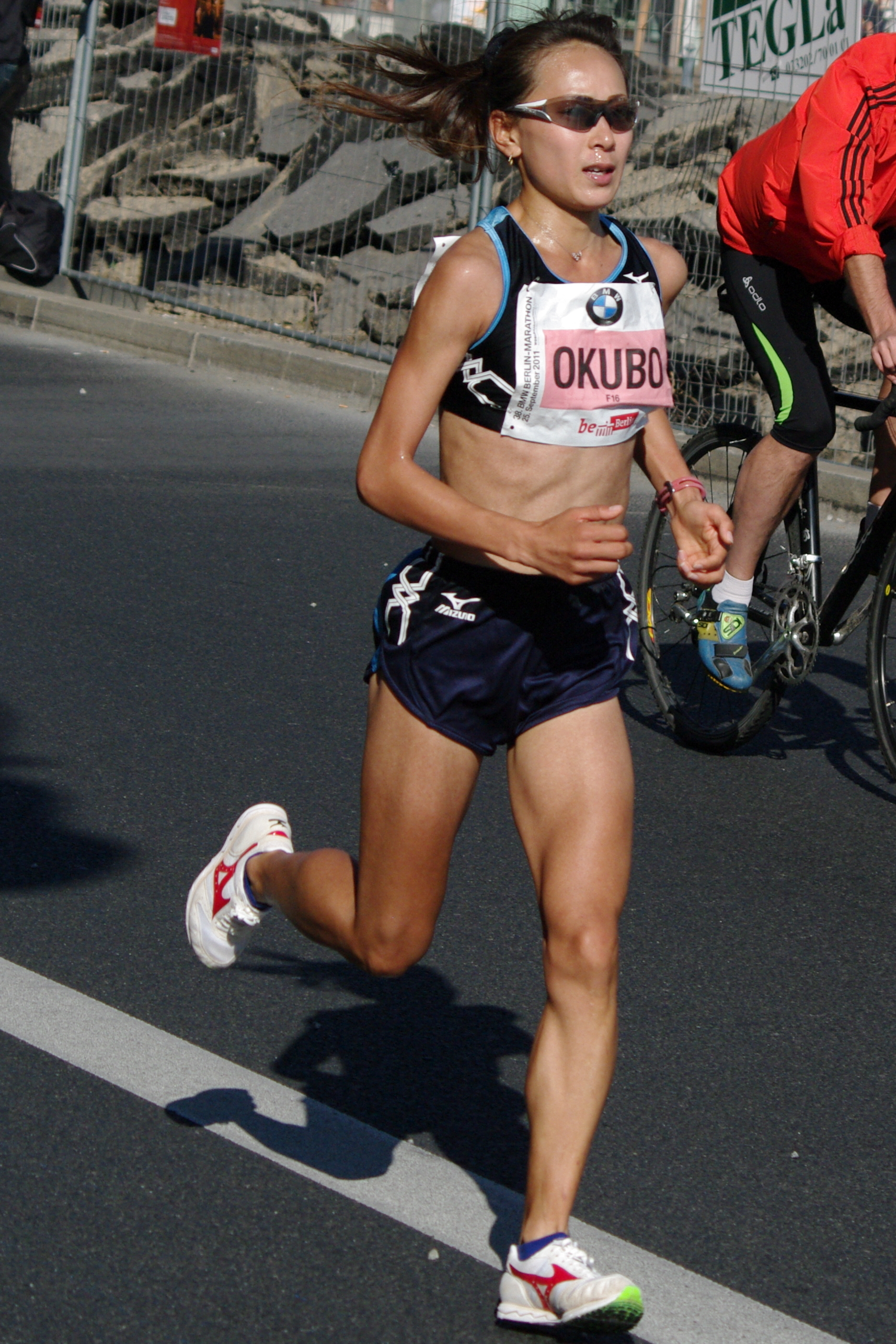 Eri Okubo on Tauentzienstraße (km36) of the Berlin Marathon 2011. She finished at place 9, 2h 28 minutes.